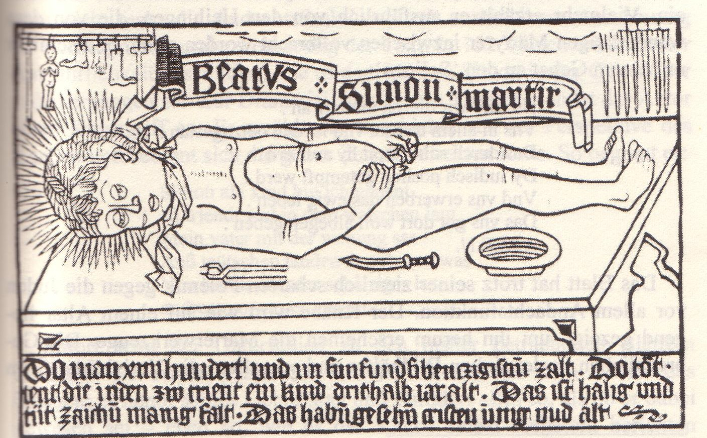 Saint Simonino from Trento's martyred body. Engraving, Nürnberg, around 1479.